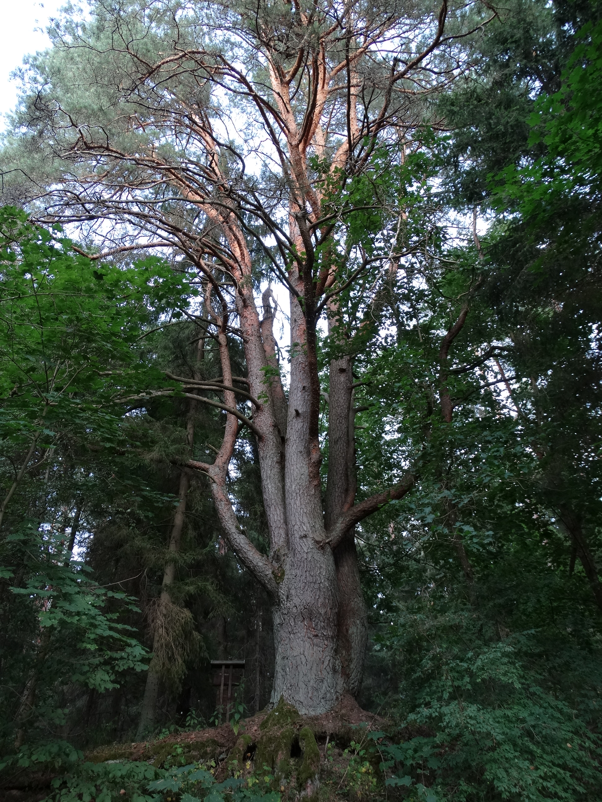 Pine tree, Šilelis, Anykščiai district, Lithuania